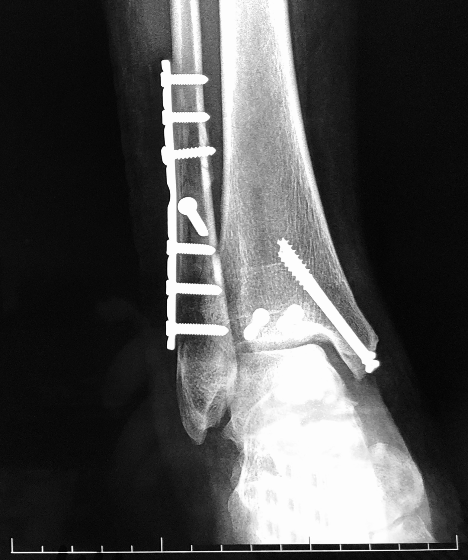 X-rays right leg